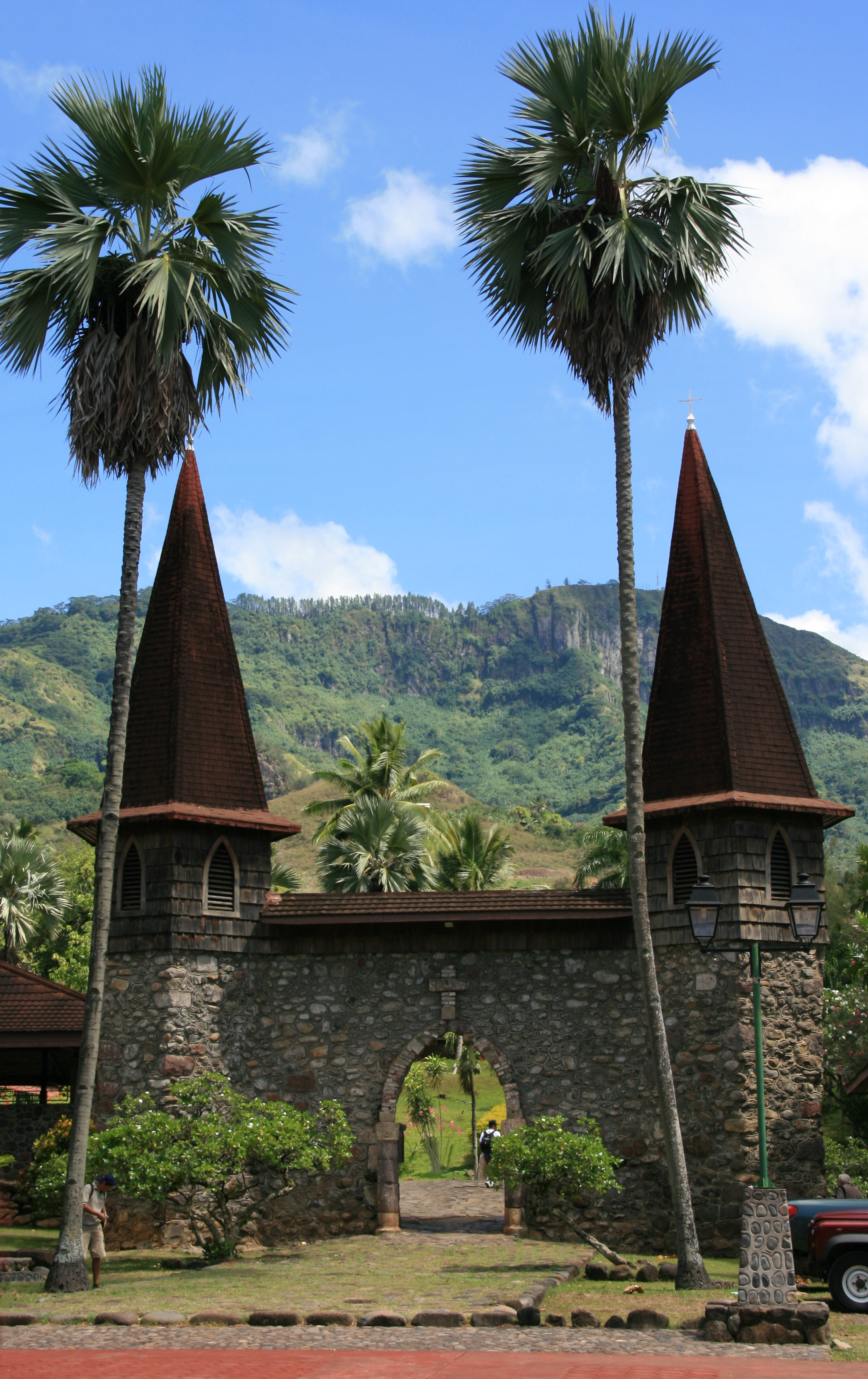 Porch of the cathedral of Notre-Dame de Taiohae (or Notre-Dame des Marquises), in the village of Taiohae, Nuku-Hiva, Marquesas Islands, French Polynesia.